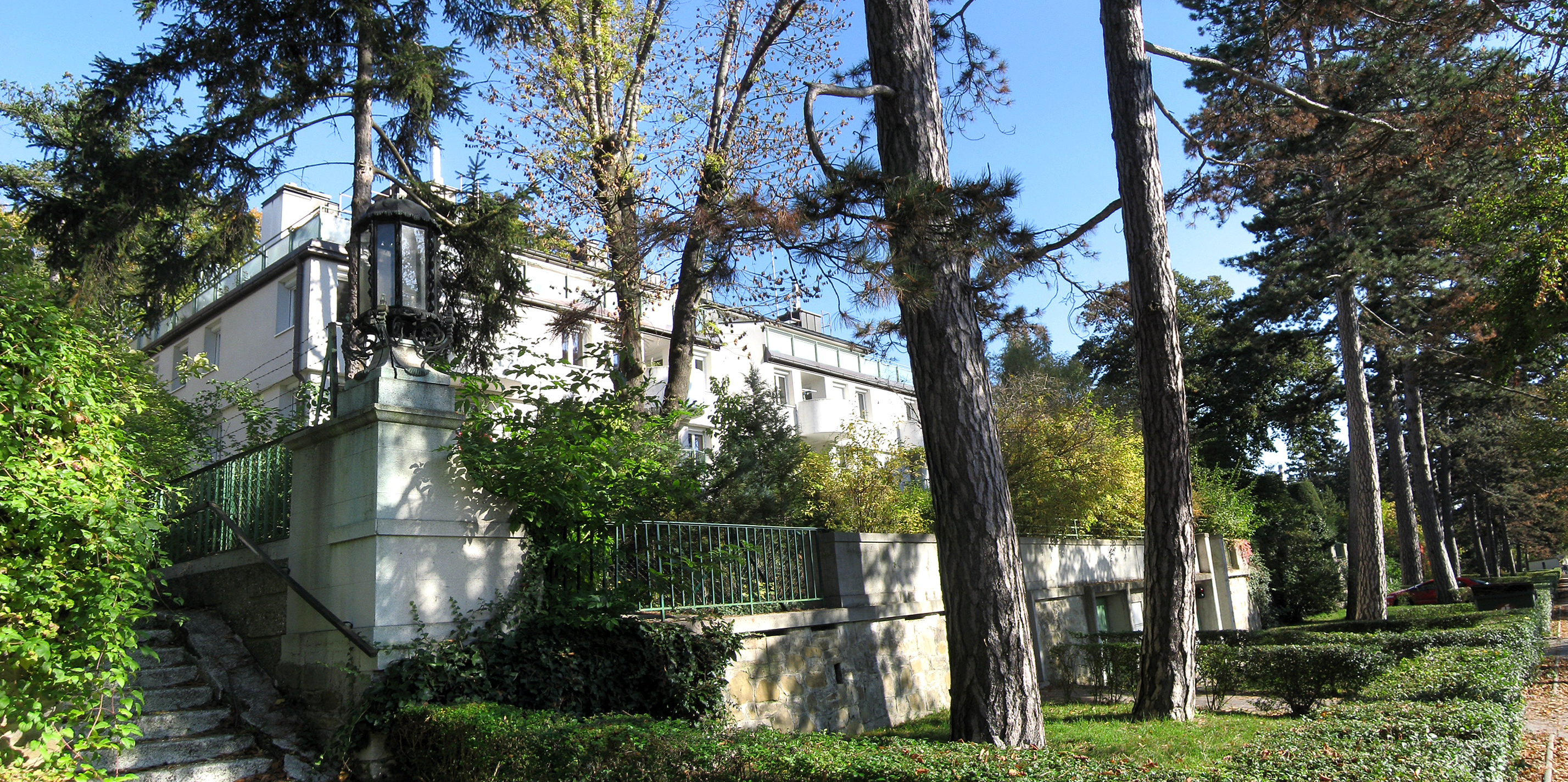 Remains of the Villa Regenstreif in Vienna.